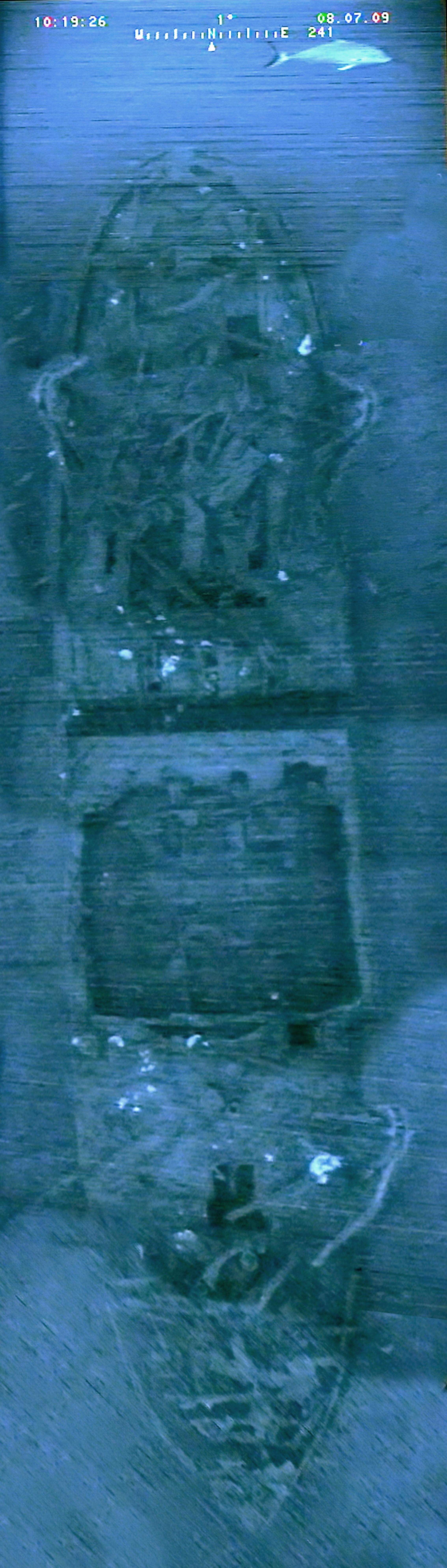 Photo mosaic of USS YP-389's shipwreck